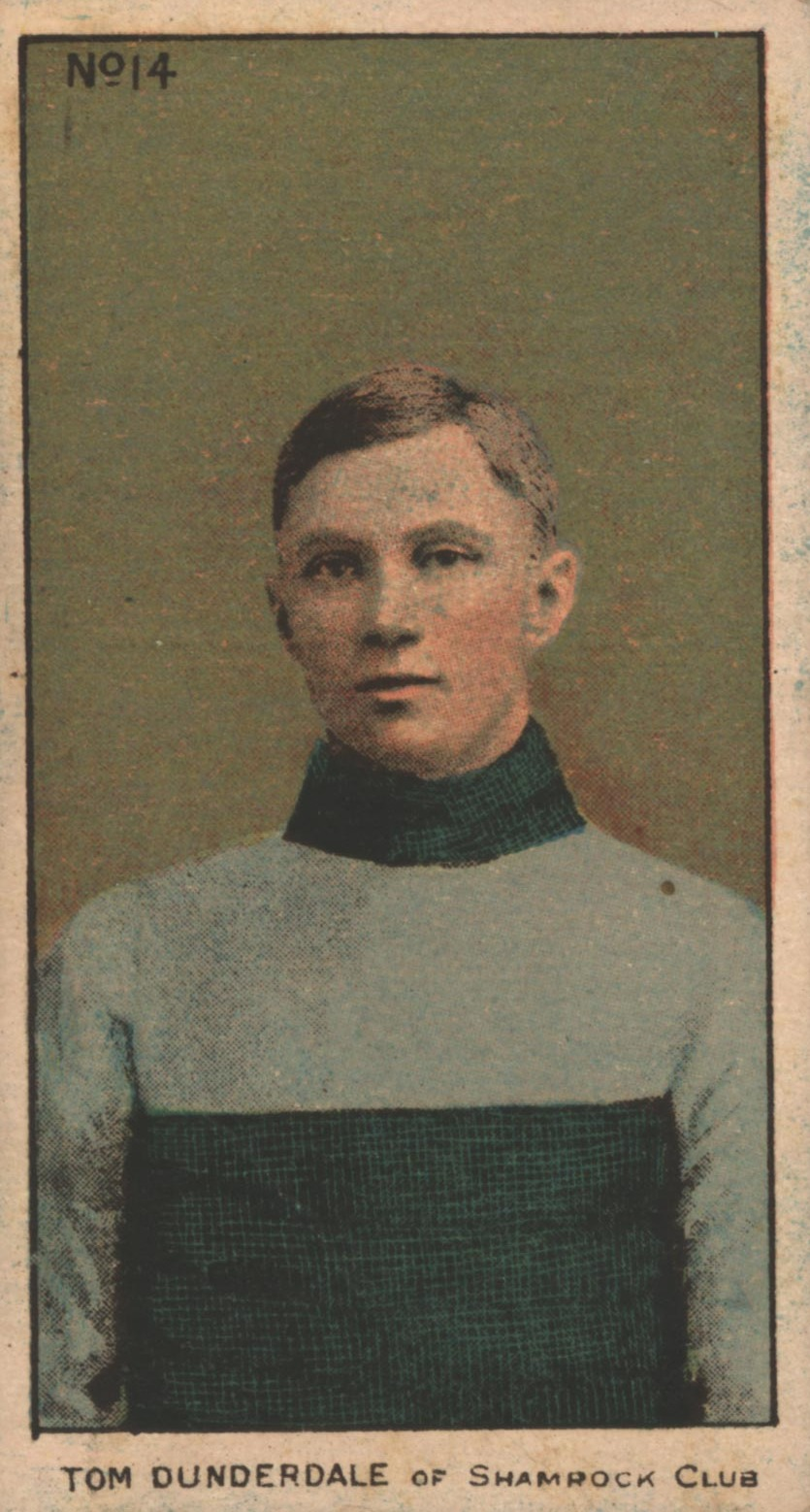 1910-1911 C56 Imperial Tobacco Tom Dunderdale hockey card